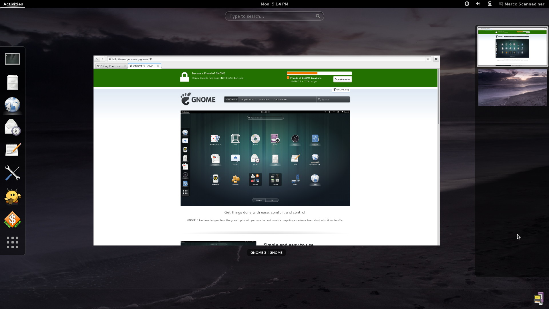 A screenshot of GNOME 3.6 running on Arch Linux